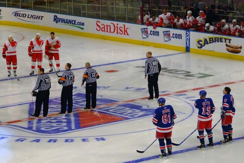 New York, NY